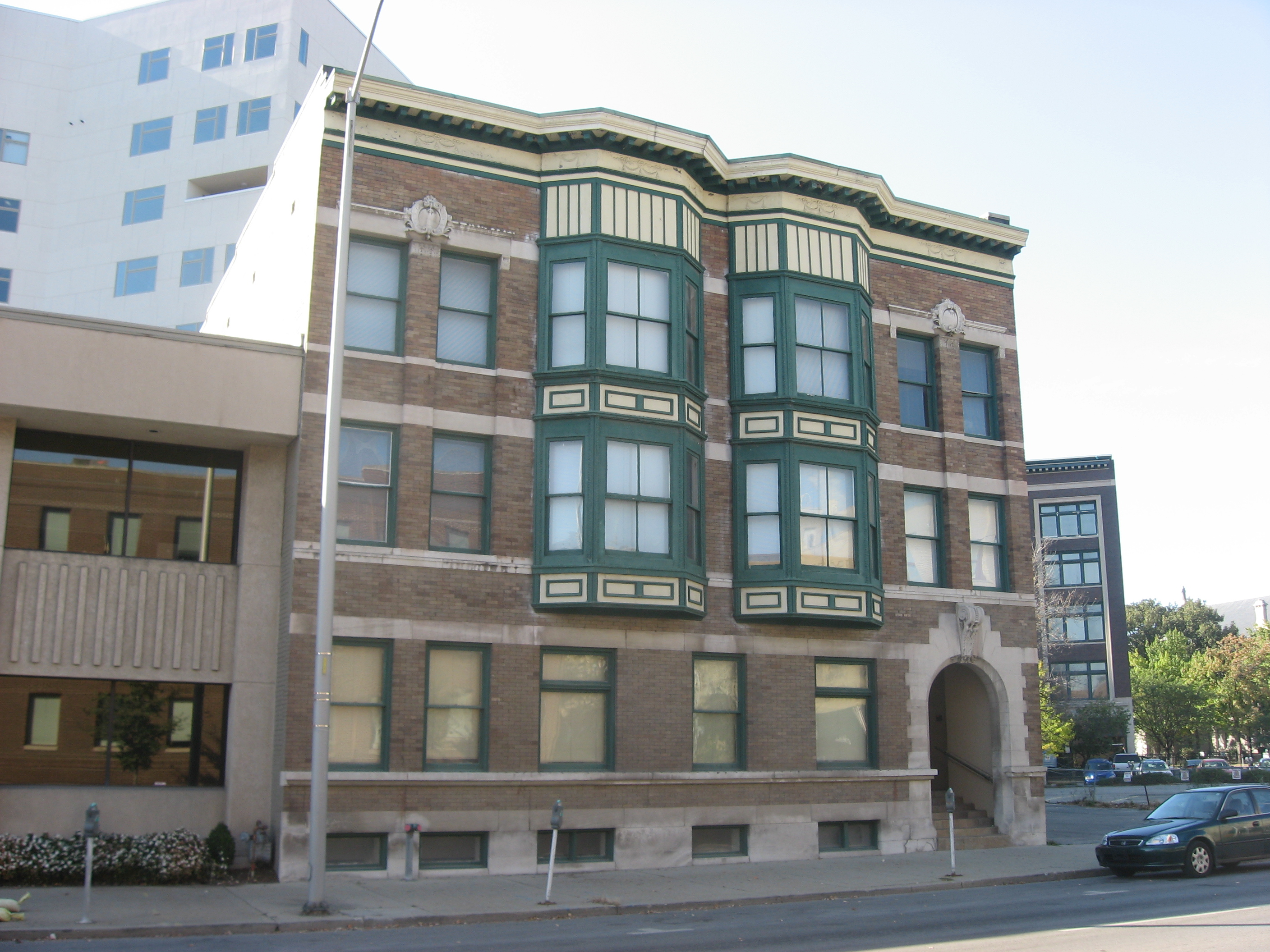 Alabama Street front of The Baker, located at 310 Alabama Street and 341 Massachusetts Avenue in Indianapolis, Indiana, United States. Built in 1903, it is listed on the National Register of Historic Places, and it is part of the Massachusetts Avenue Commercial District, a Register-listed historic district.